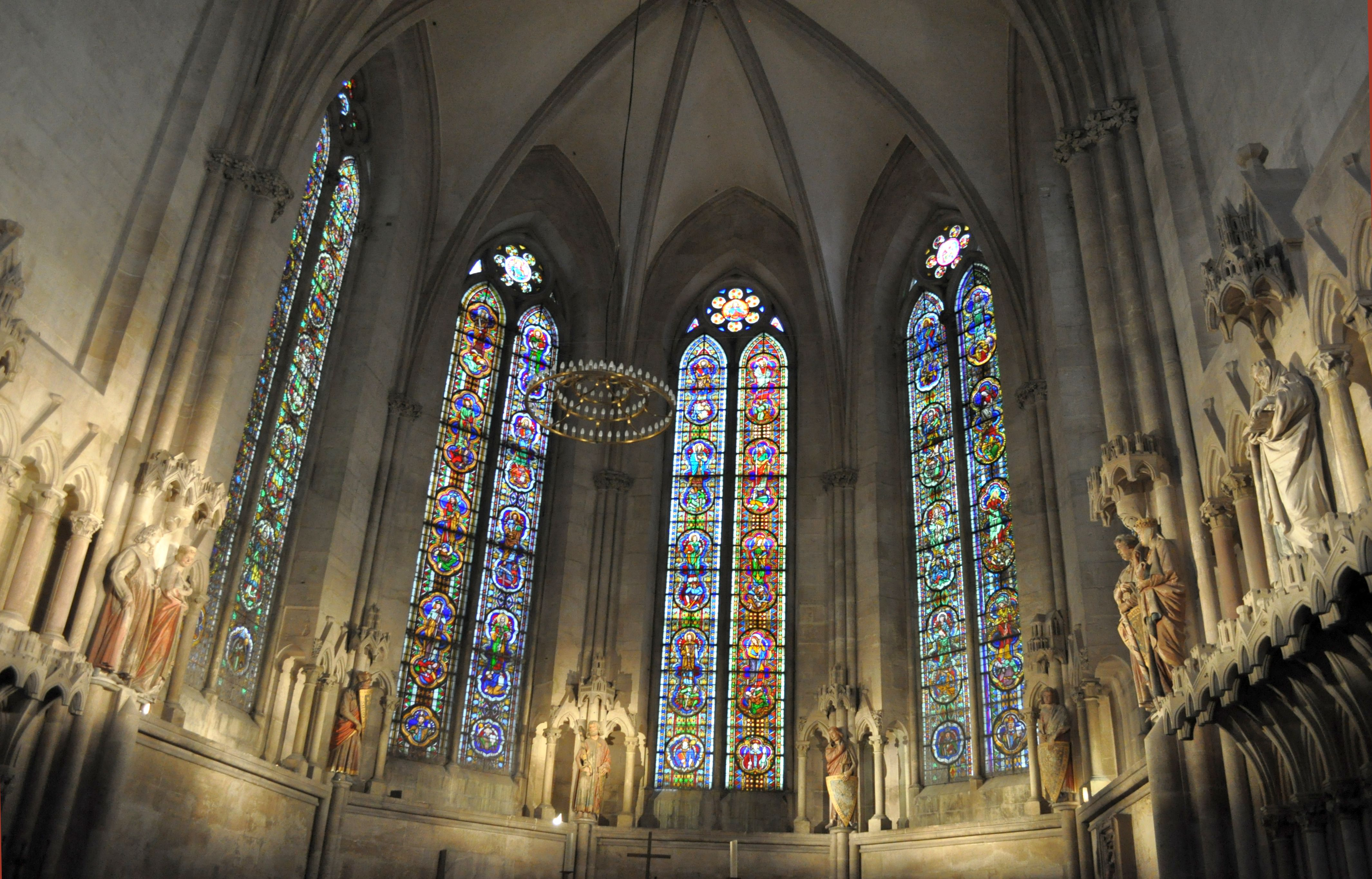 West Choir of the Naumburg Cathedral